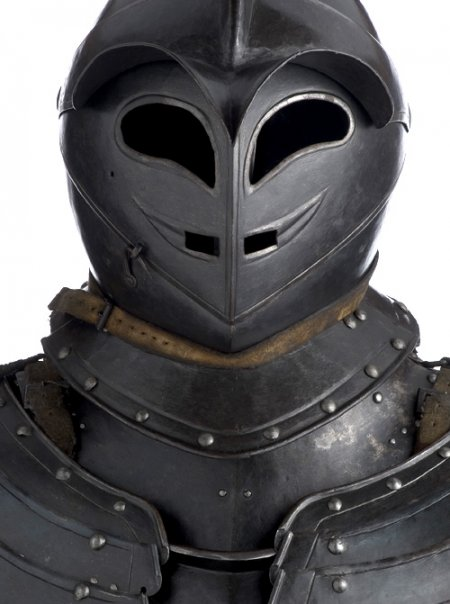 Savoyard Cuirassier's armour